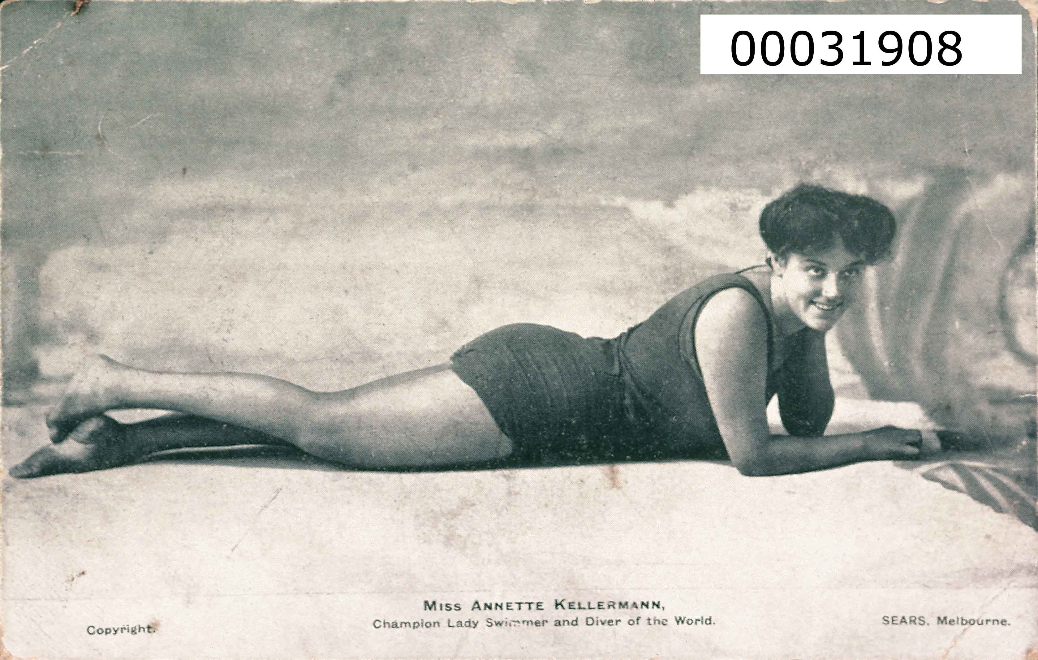 This studio photograph shows the famous Australian swimmer and silent Hollywood film star Annette Kellerman wearing a very daring one piece swimsuit. Kellerman produced several studio photographs of herself in different poses as illustrations for her book 'Physical beauty, how to keep it.', published by G H Doran Company in New York in 1918. In her book How to Swim, 1918, she objected to the early heavy swimsuits of the late 1800s and early 1900s: 'The bathing girl of our popular beaches only a few seasons ago wore shoes, stockings and bloomers, skirts, corsets and a dinky little cap...There is no more reason why you should wear those awful water overcoats – those awkward, unnecessary, lumpy “bathing suits,” than there is that you should wear lead chains.' Object no. 00031908 See our blog on Annette Kellerman: bit.ly/Jw0xm2